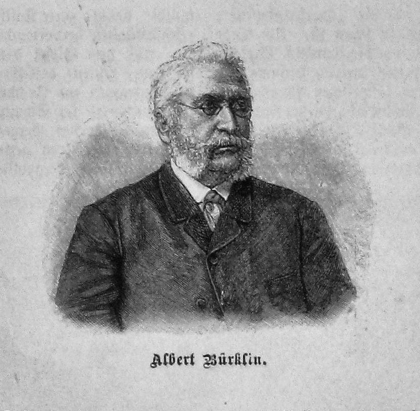 Page 674 from journal Die Gartenlaube for 1890. Extracted image (if any): File:Die Gartenlaube (1890) b 674.jpg - hi res, ~2.5 MB.